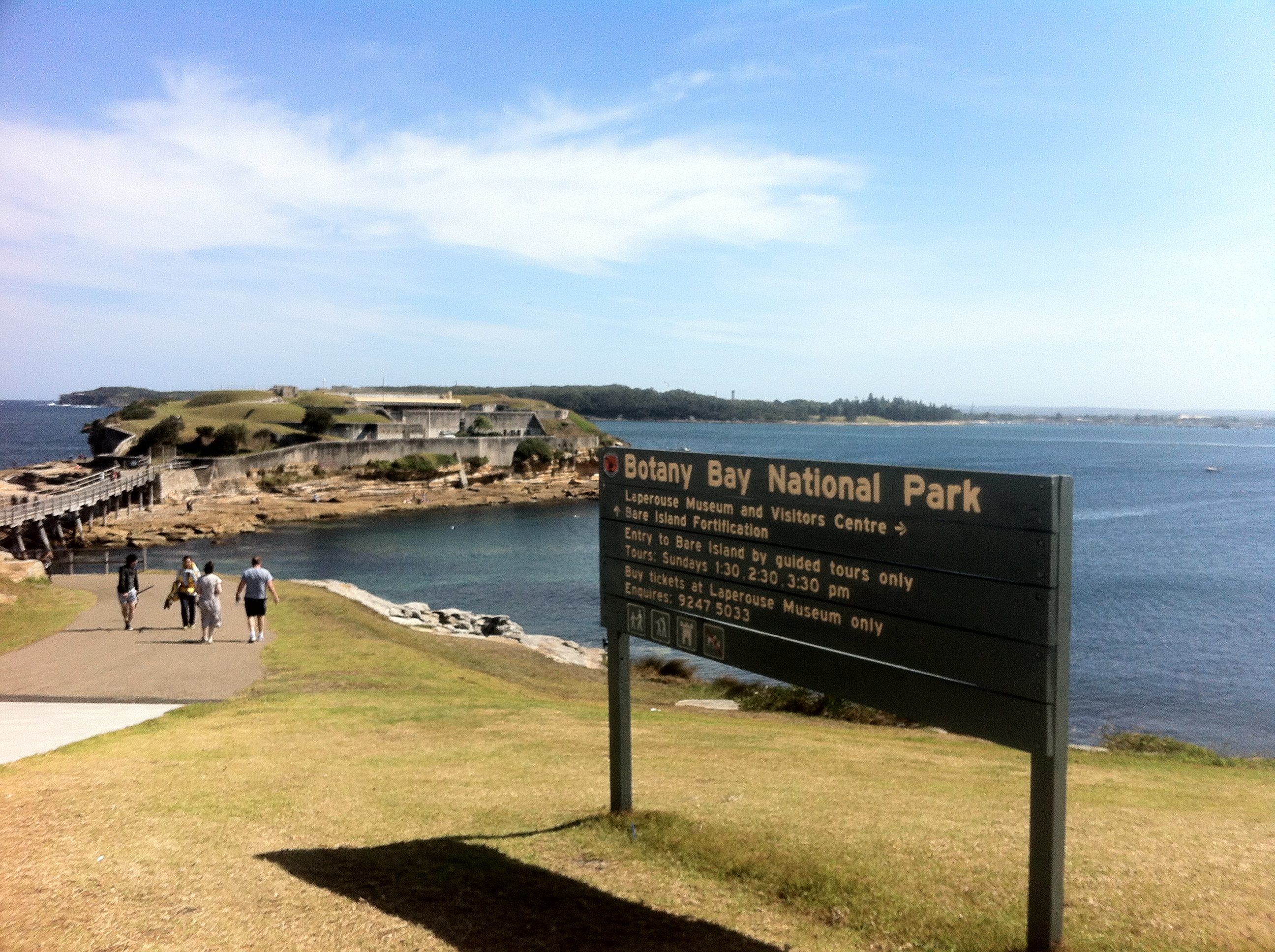 Bare Island, Botany Bay National Park, Laperouse, Sydney, Australia